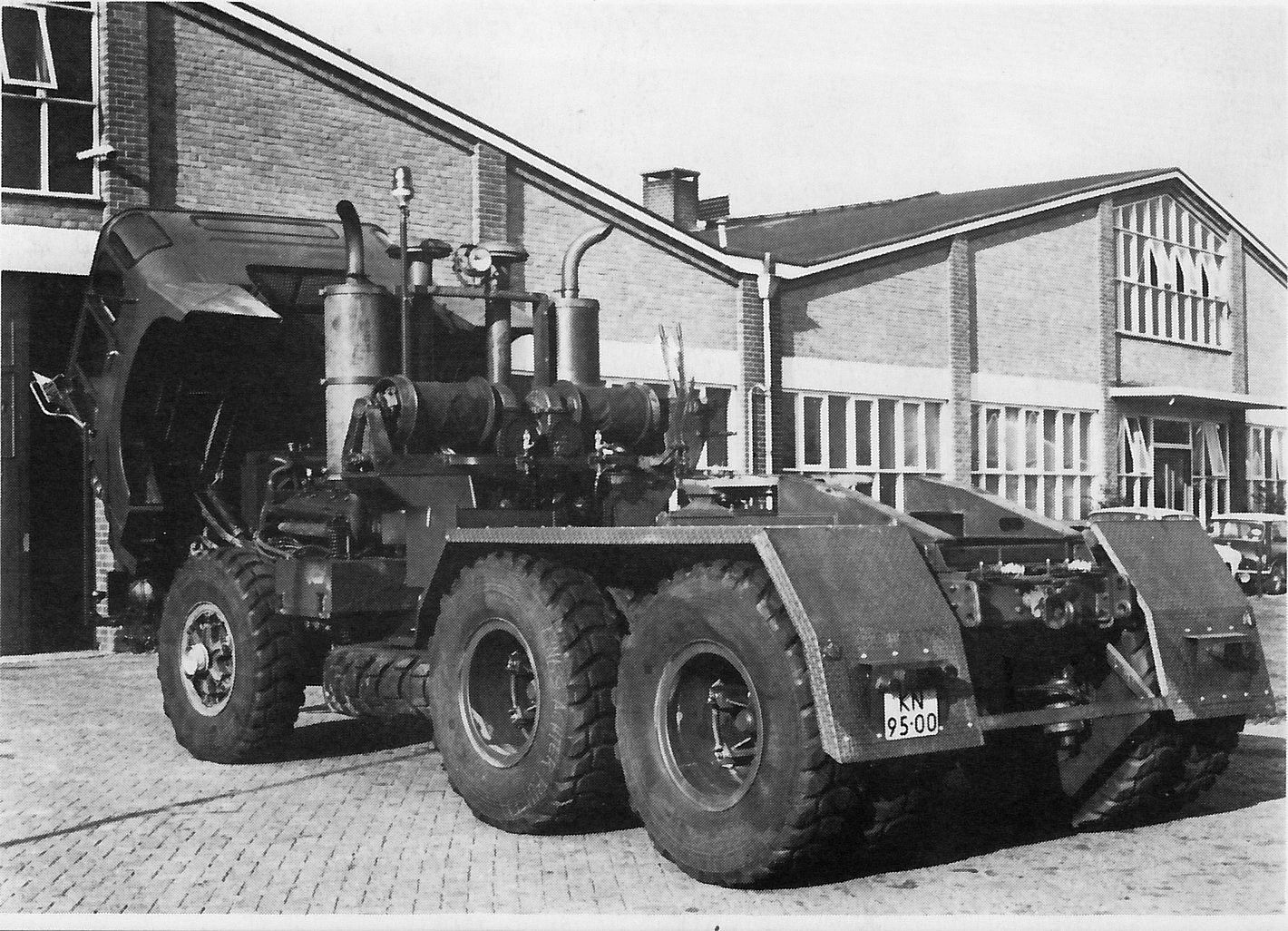 FTF heavy truck. Build by Floor Truck Factory The Netherlands for the Dutch Army as tanktransporter